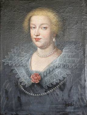 Portrait of Élisabeth de Longueval, dame de Rouville, comtesse de Clinchamp at the Château de Bussy-Rabutin